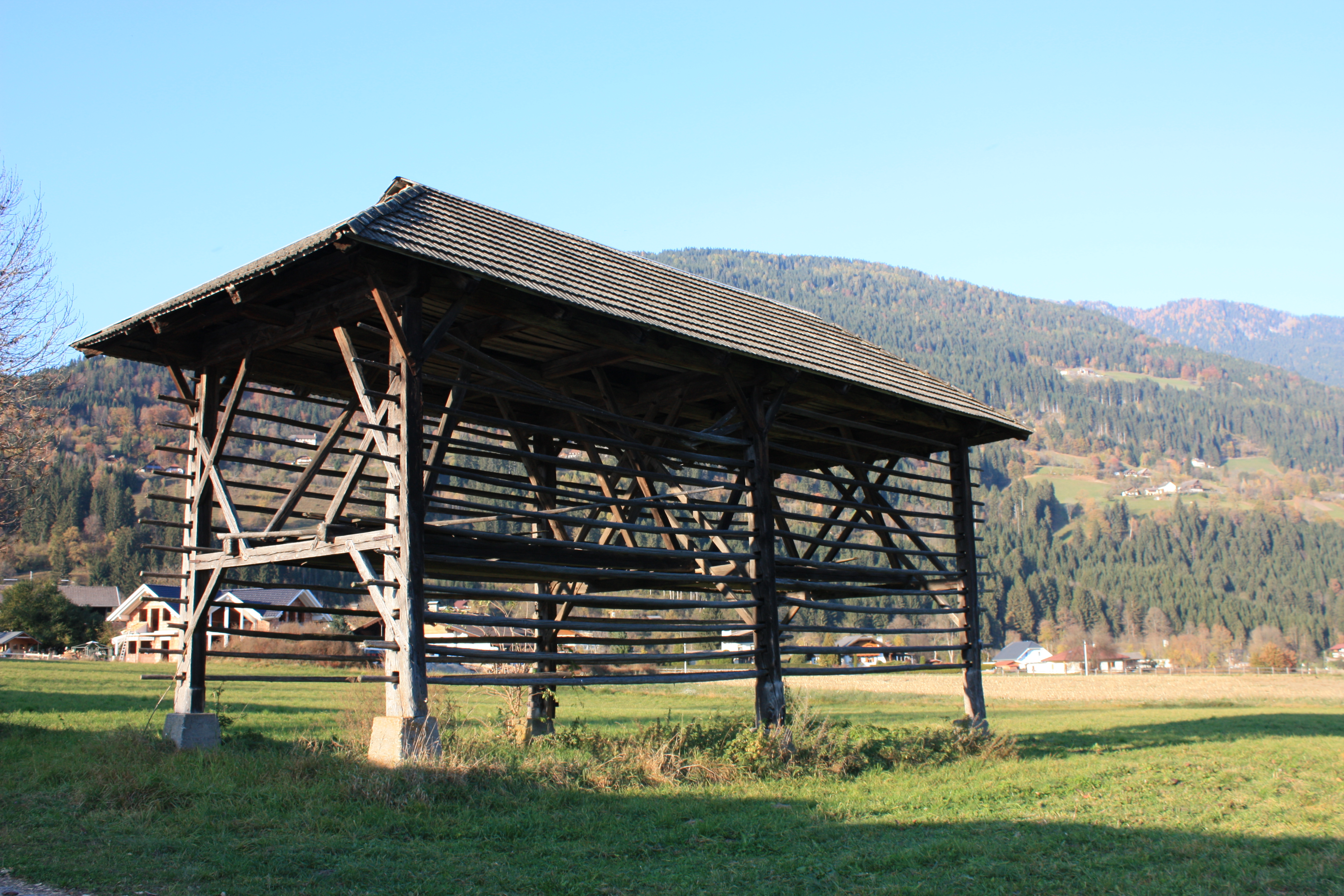 Hilge (Gadget former used to dry and storage hay) Country: Austria Community: Greifenburg